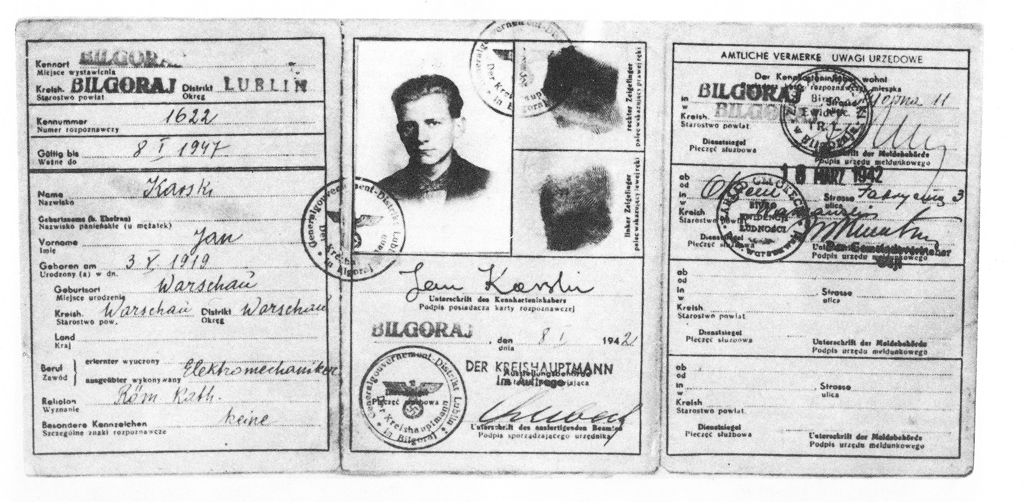 Forged Kennkarte of Jan Bytnar issued in the name of Jan Karski